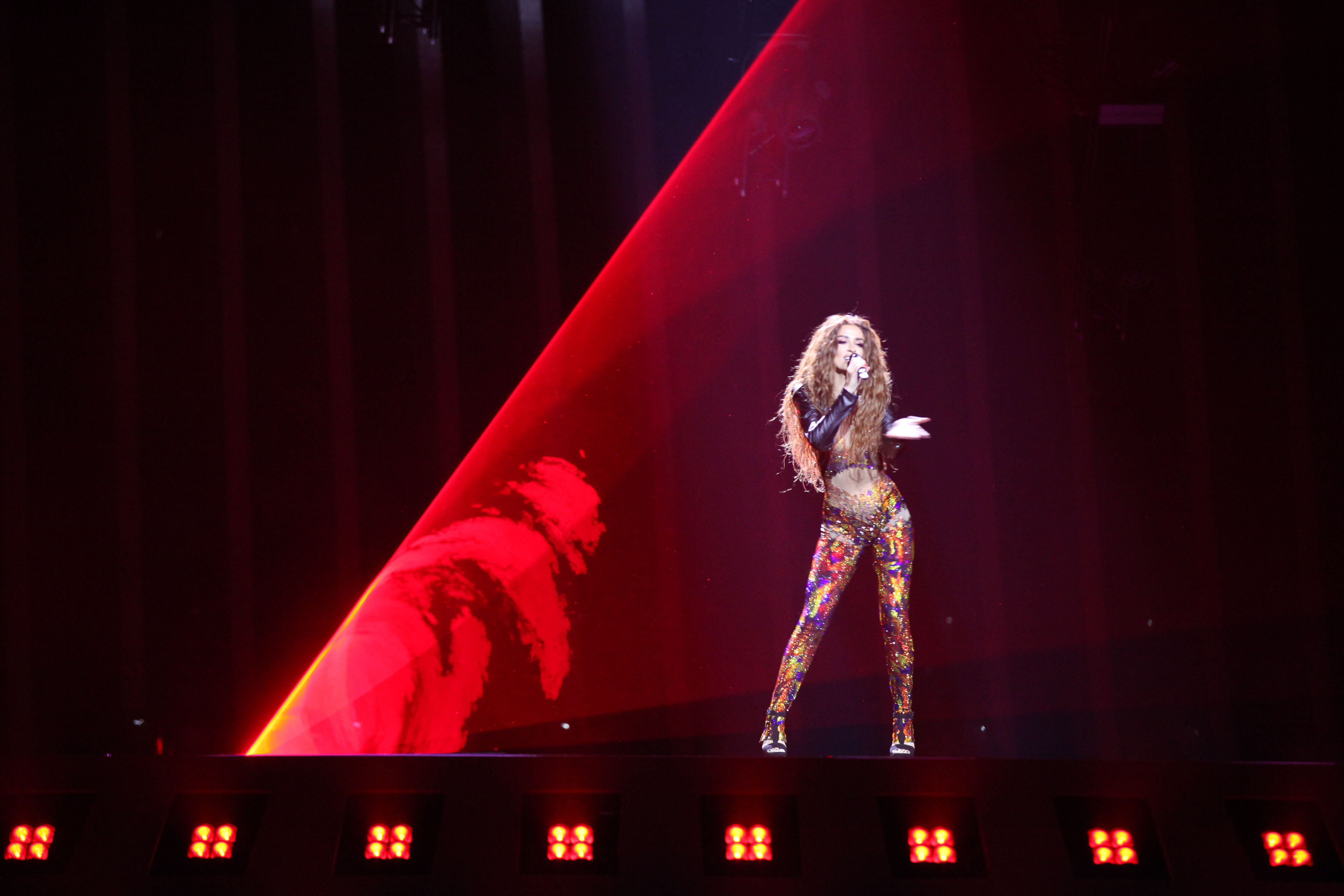 Eleni Foureira representing Cyprus with the song "Fuego" during a rehearsal before the grand final of the Eurovision Song Contest 2018 in Lisbon.